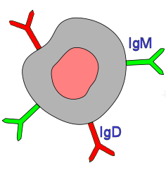 B-cell naive with its own two kinds of surface receptors.